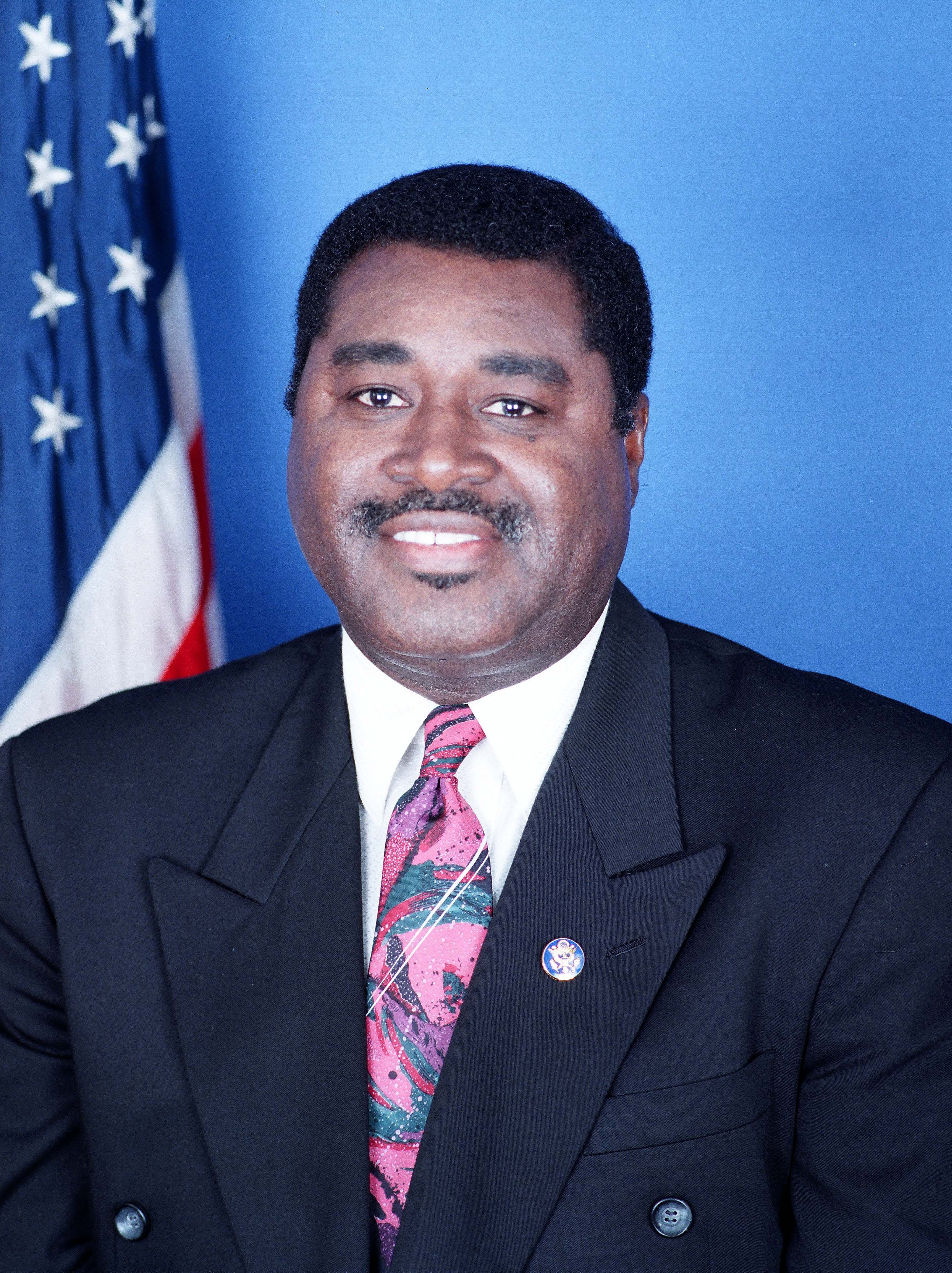 Earl F. Hilliard, member of the United States House of Representatives.